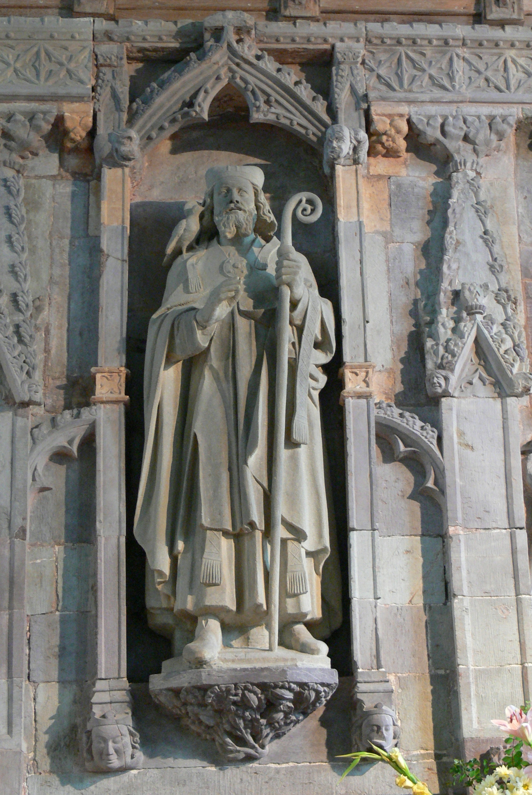 St.David's ( Wales ). Cathedral: Rood screen - Statue of Saint David ( 14th century ).